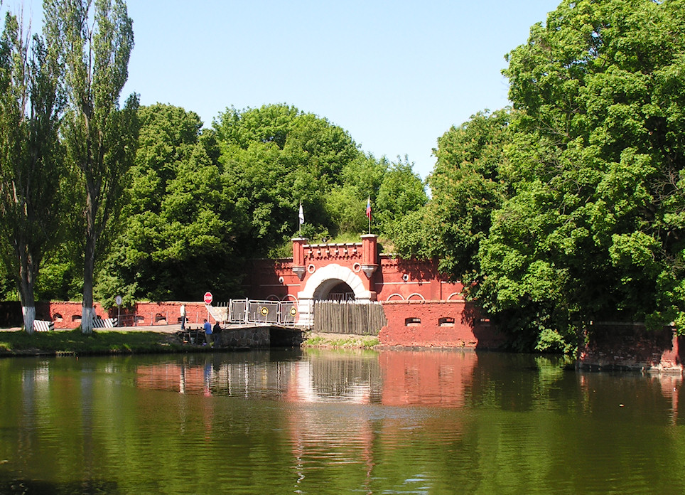 Pillau Citadel, Baltiysk.